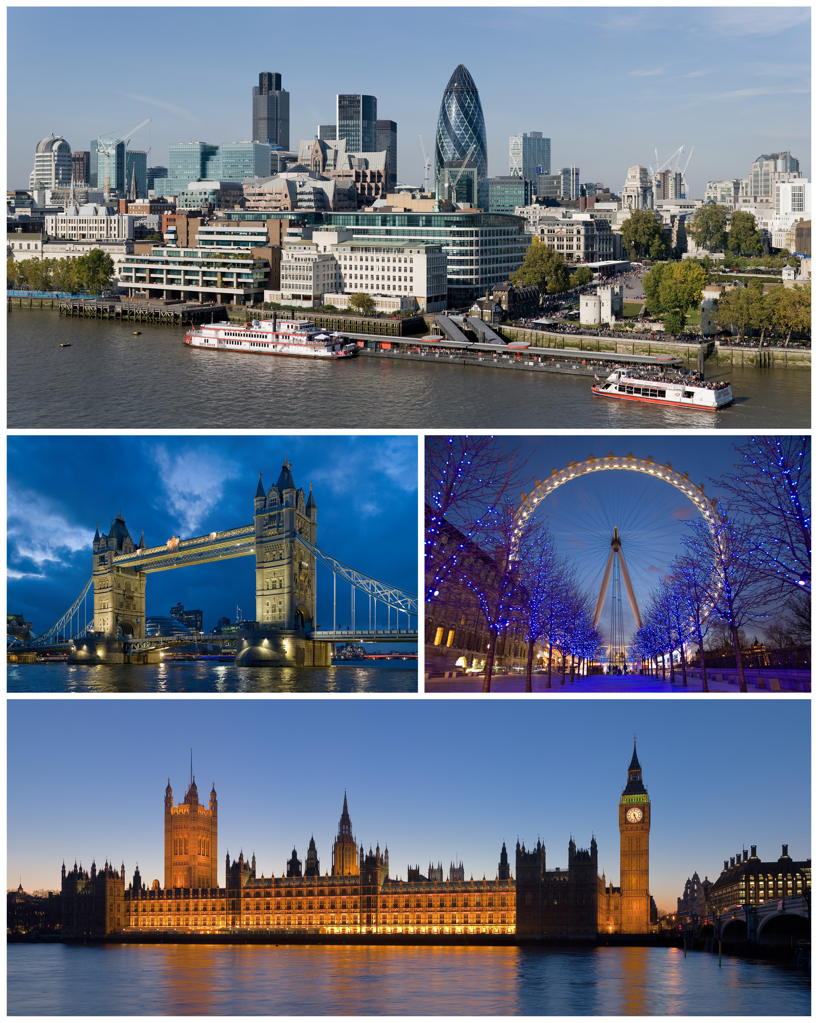 London collage.